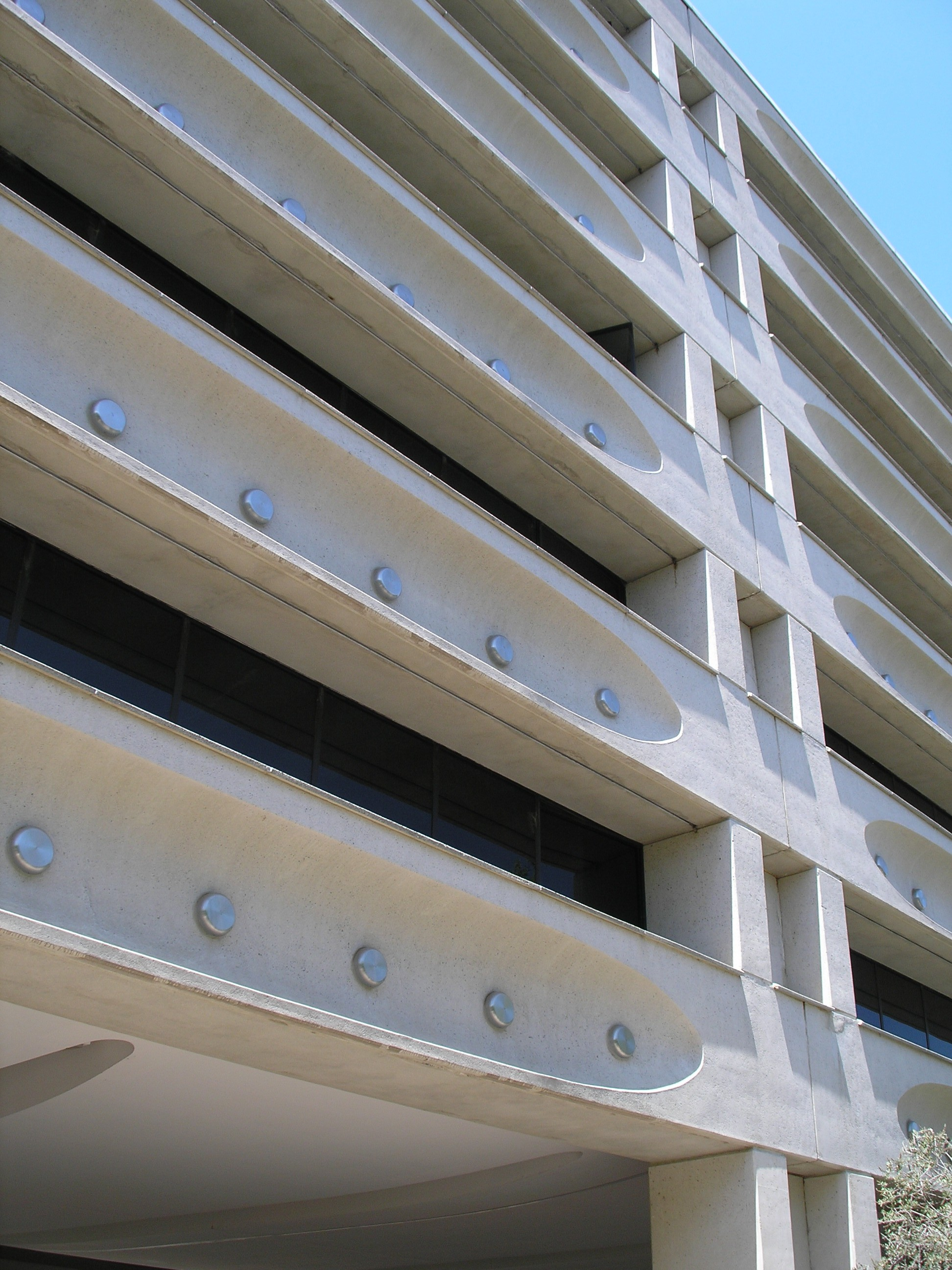 Facade of Edmund Barton Building, Canberra, showing stainless steel caps covering concrete prestressing anchorages